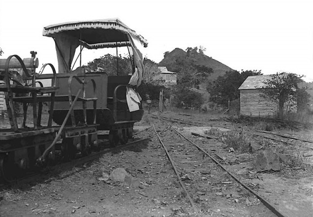 Histoire de Madagascar - les Rues de Diego Suarez : le Quartier Militaire